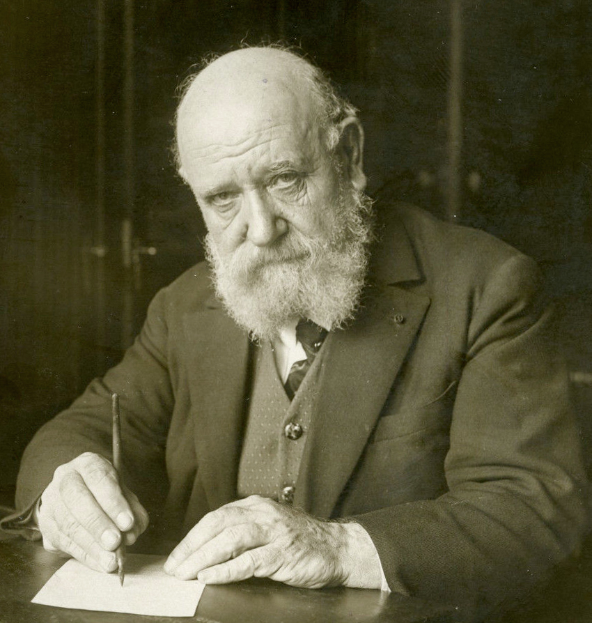 "Charles LE GOFFIC / PARIS 3 Juin 1931" Photo originale G.DEVRED (Agce ROL)